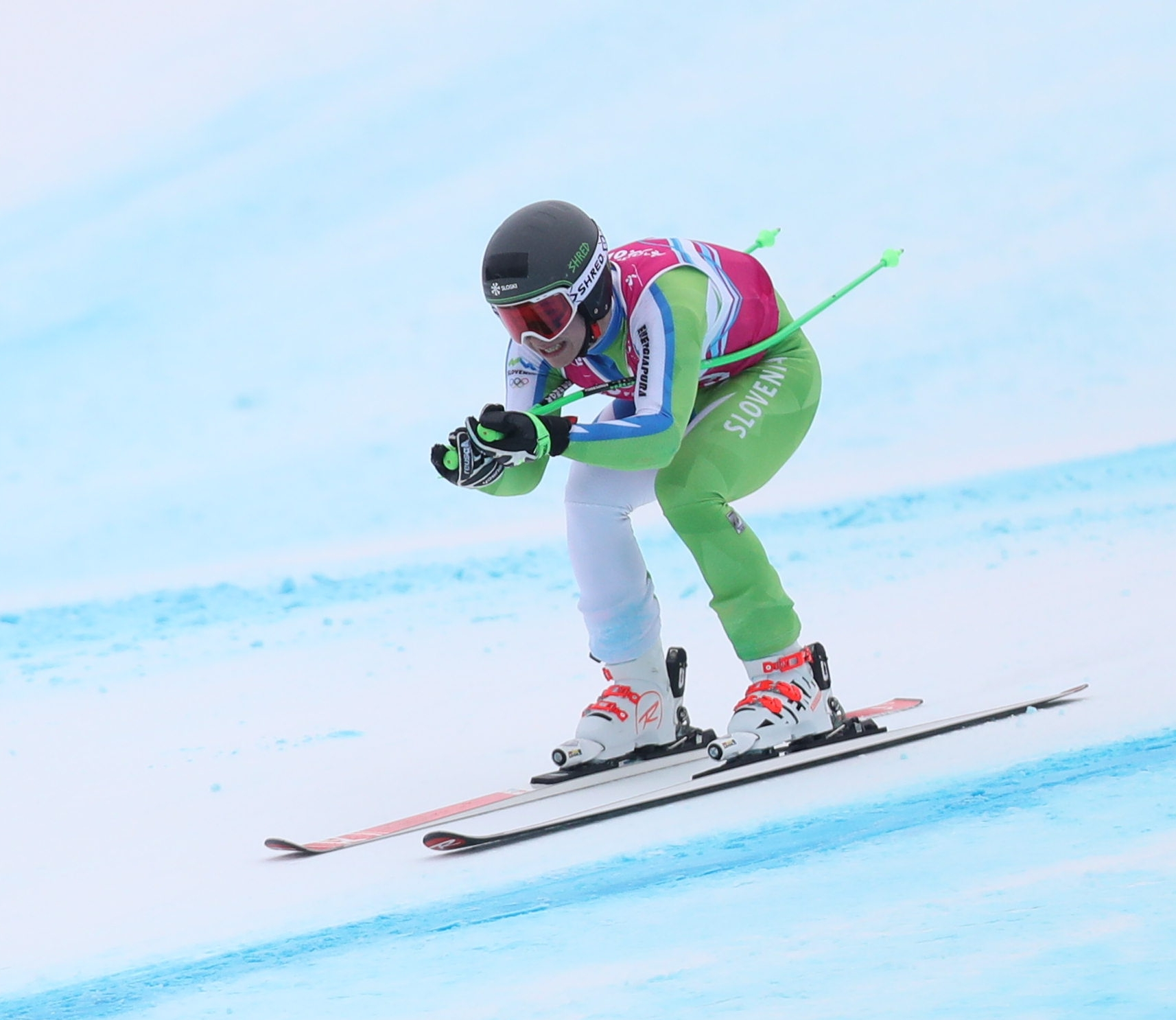 Men's Super G at the 2020 Winter Youth Olympics in Lausanne